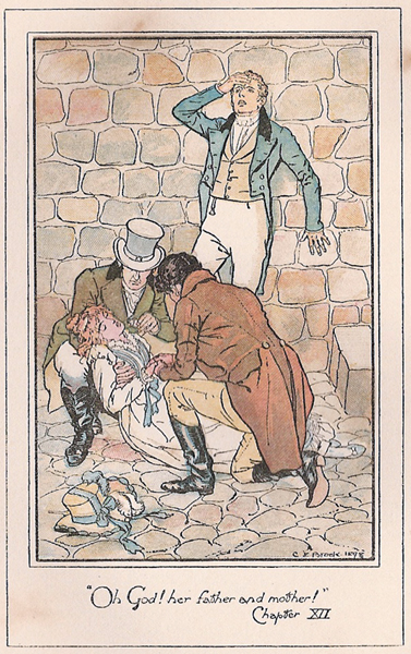 Persuasion (Jane Austen's last Novel), Ch.12. "Oh God! Her father and mother! " cried Captain Wentworth.